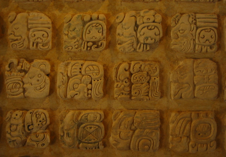 Maya stucco glyphs diplayed in the museum at Palenque, Mexico.